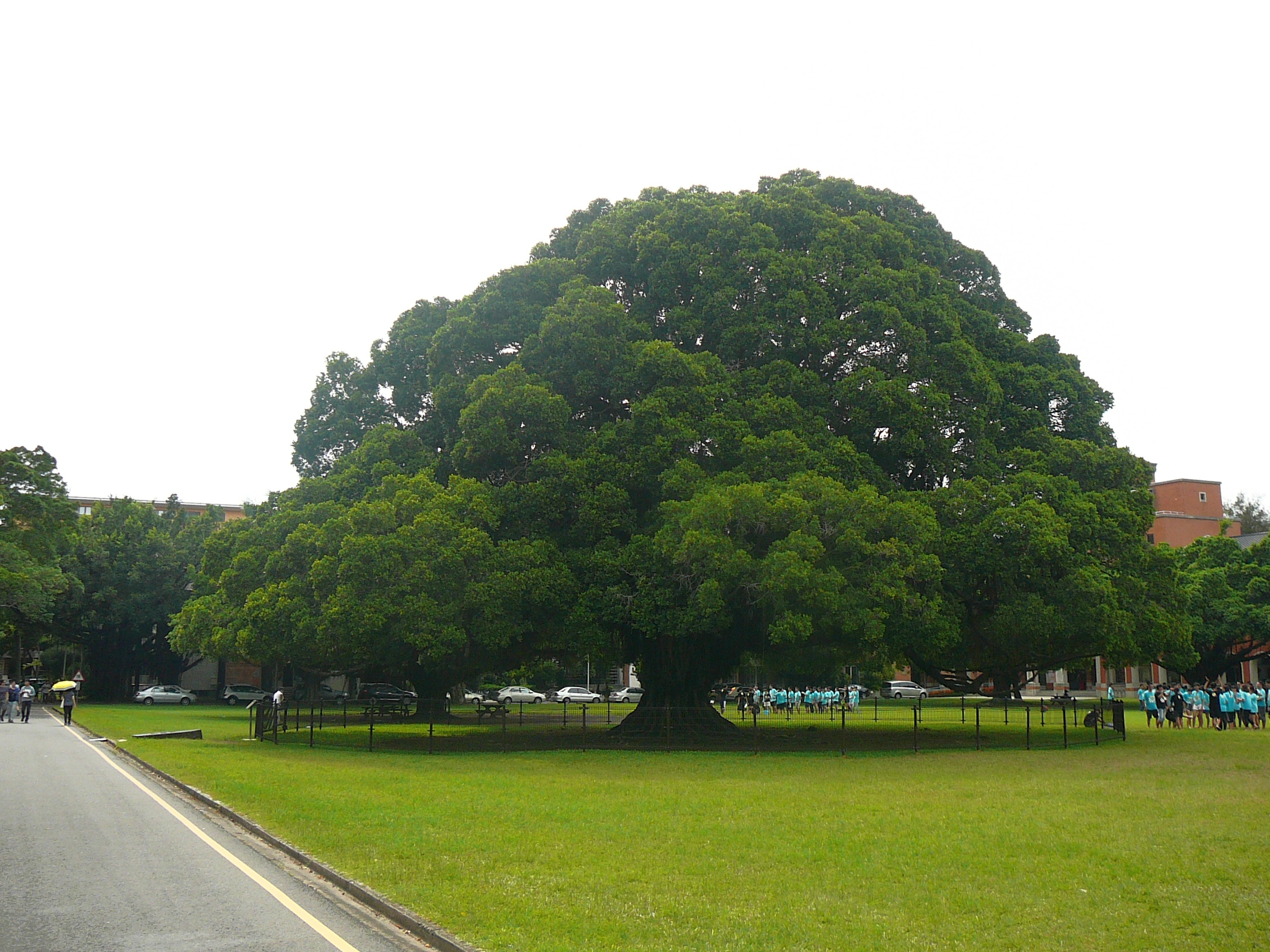 NCKU Banyan Garden